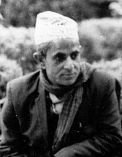 Portrait of Nepalese author Madan Mohan Mishra (1932-2013).